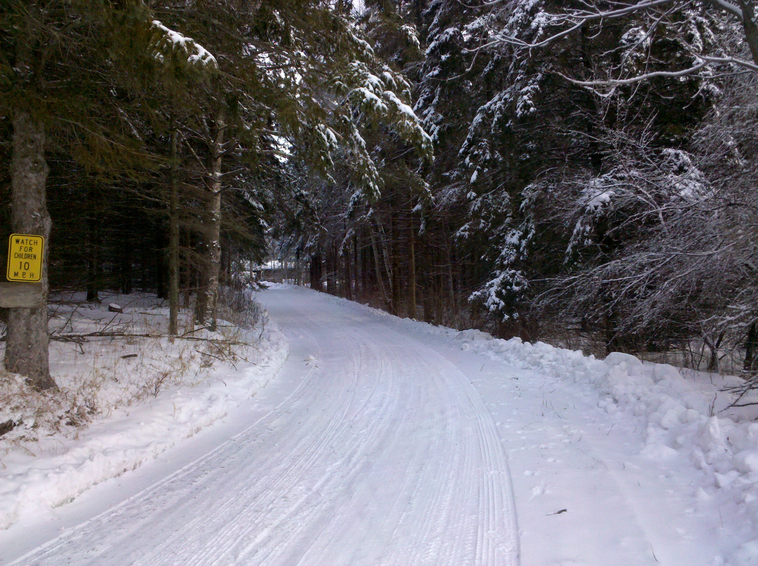 272nd lane is a private road south of Sugar Lake in Malmo Township Aitkin, County, MN